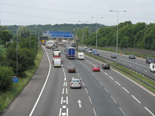 The Original And Genuine M62 This section of motorway between the M60/M62/M602 junction and Worsley is one of the oldest in the UK. It's the original M62 between Worsley (the junction on the signs) and the A56 at Sale. When built, it was a hugely important boost for Manchester's transport network with a vital extra crossing of the then-busy Ship Canal which need not be shut for the passage of each vessel. When the Liverpool-Hull motorway was built in the 1970s it gained the M62 designation and the original M62 was renumbered M63, except for the short section in view. With the belated completion of Manchester's motorway ring almost 20 years later the good old M62 was renumbered in its entirety to M60. It is still a critical link in the motorway network: all praise to the men of Lancashire who saw the need and acted! For more on this and the UK's other major transport arteries, and